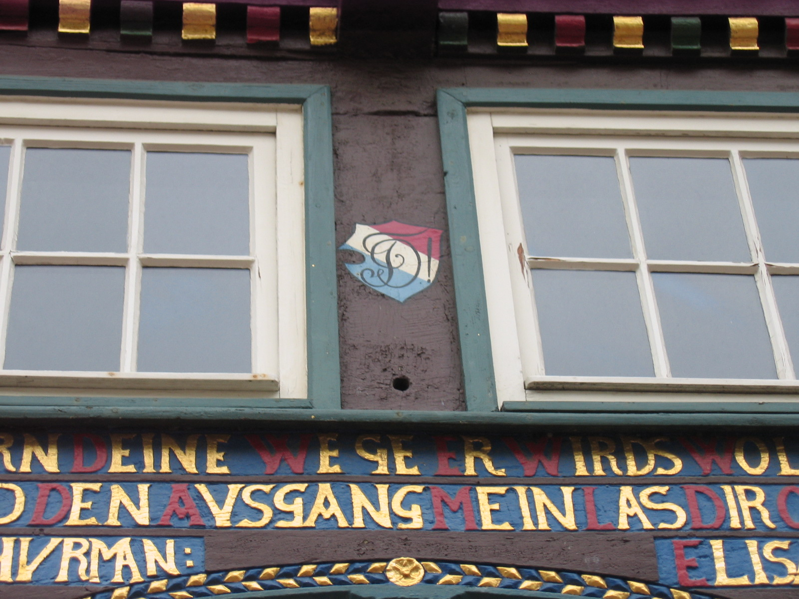 in Vlotho, District of Herford, North Rhine-Westphalia, Germany.